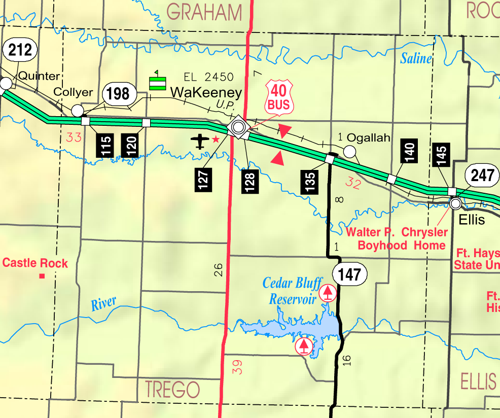 This map of Trego County, Kansas, USA, is copied at a resolution of 300 pixels/inch from the original PDF file.